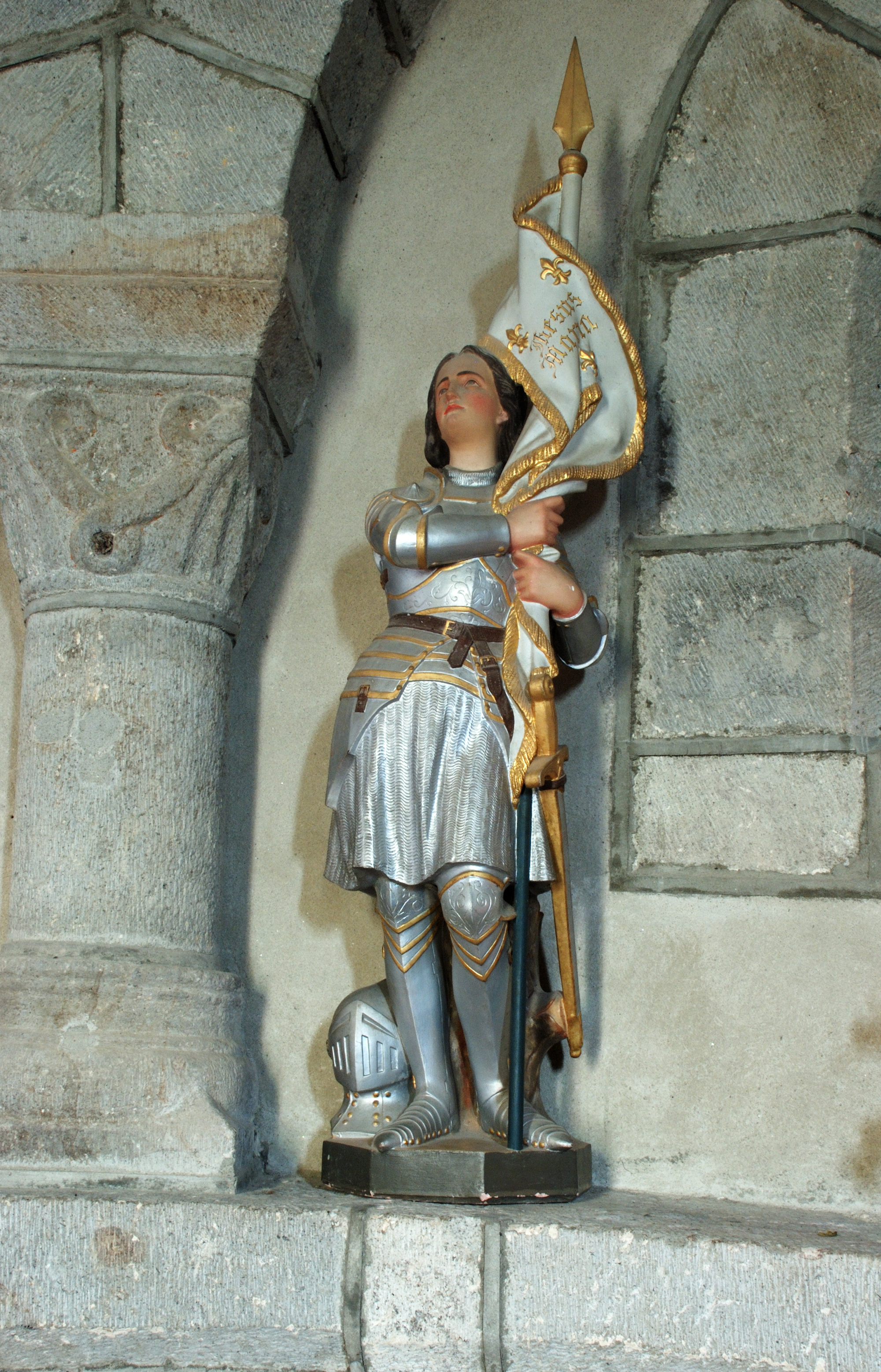 la Godivelle : statue of Jeanne-d'Arc in the church corbels (Puy-de-Dôme, France). Translations in other languages are welcome.